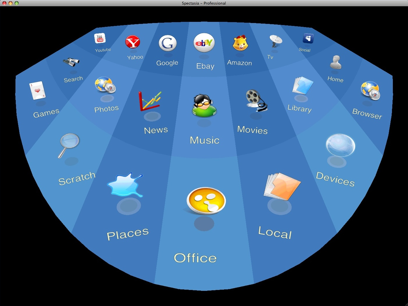 Screen shot from the Spectasia software